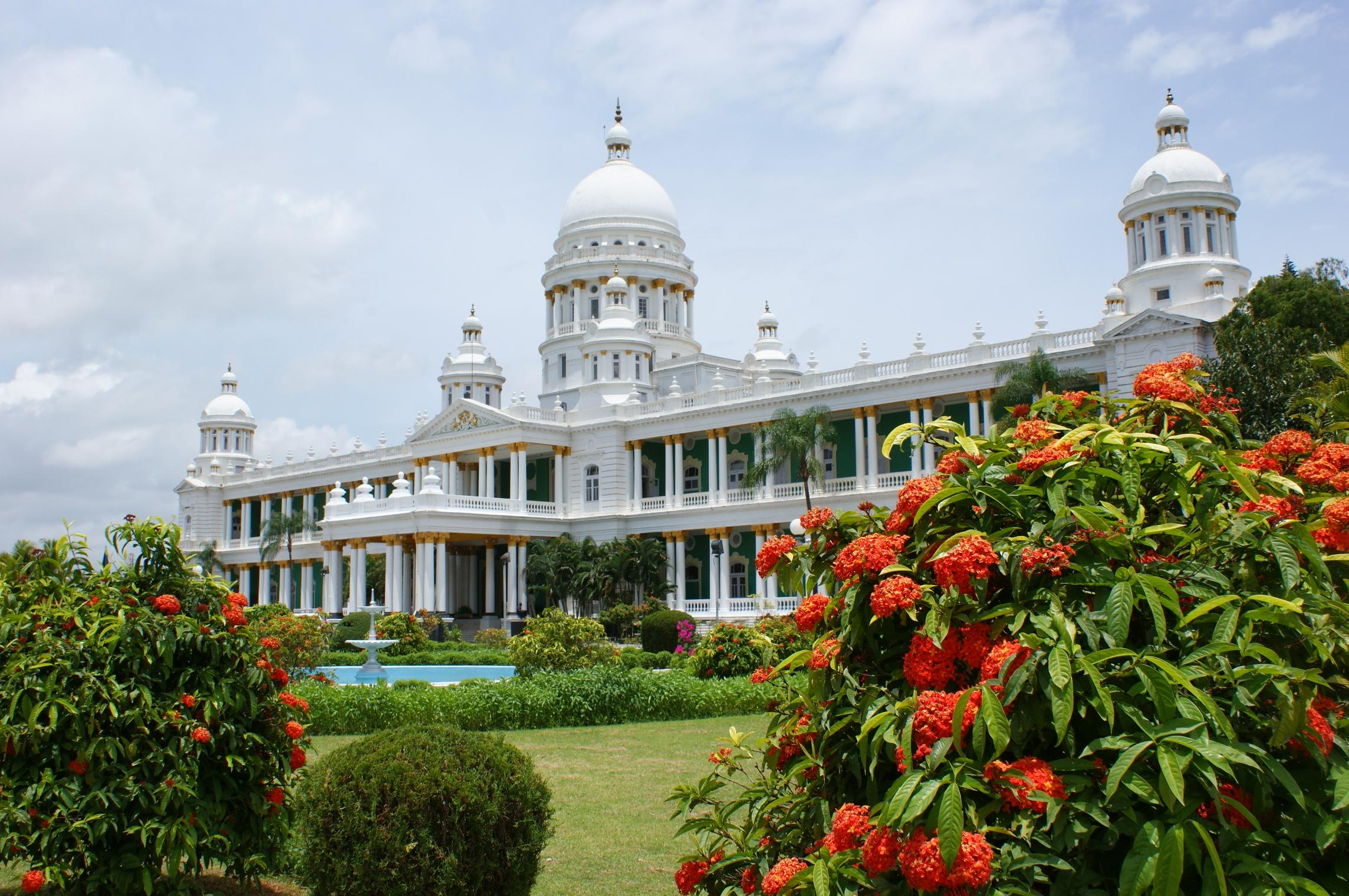 Lalitha Mahal Palace, Mysore, in September 2009